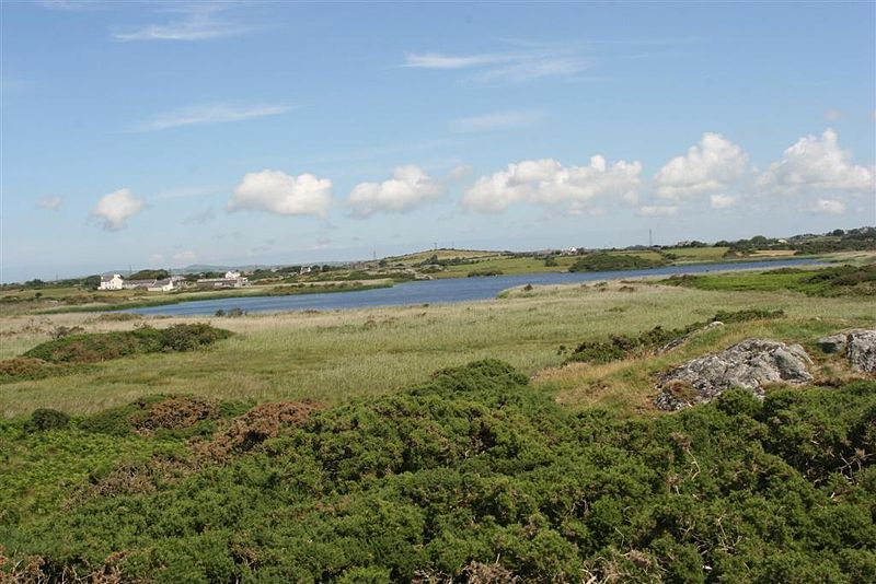 Llyn Dinam, Anglesey